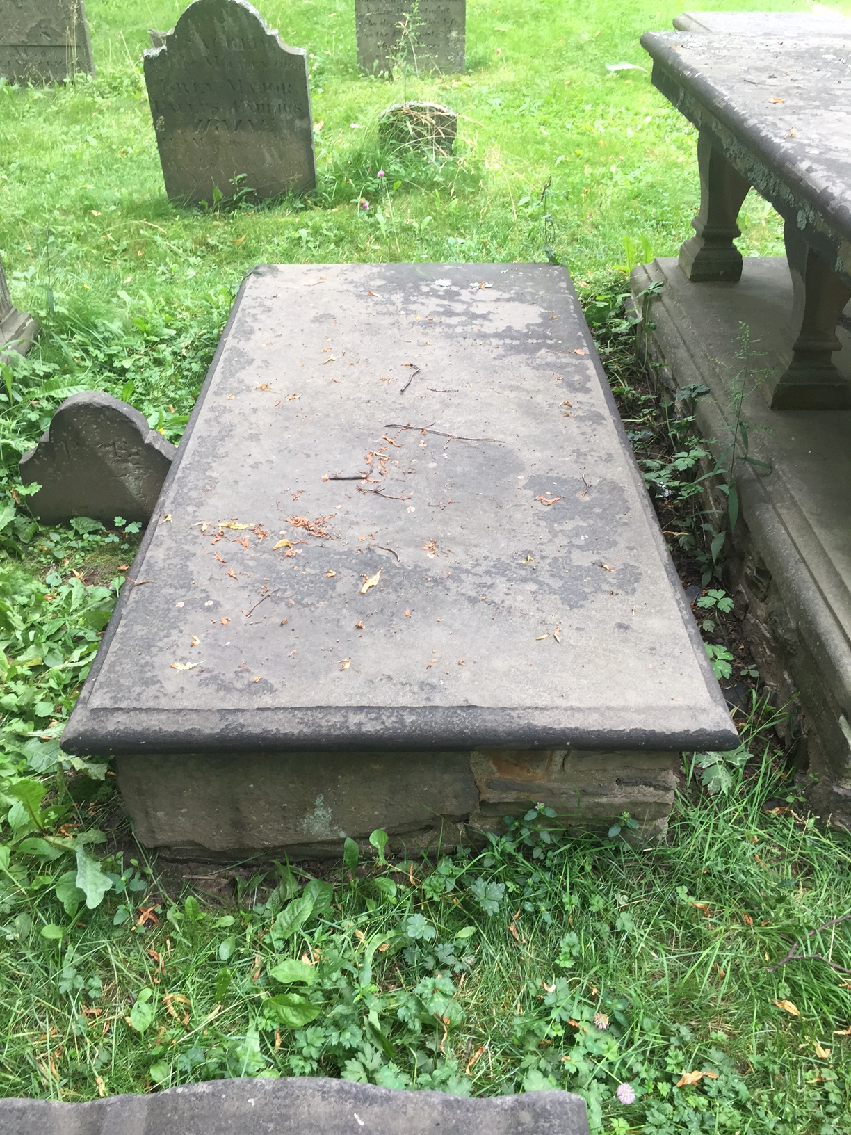 William Cropton, Old Burying Ground, Halifax, Nova Scotia